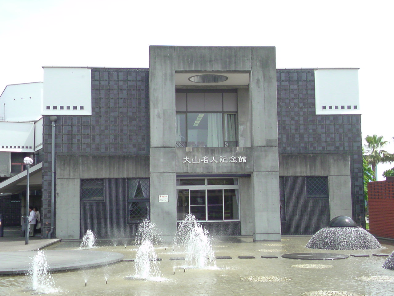 Oyama meijin kinen-kan; a hall in praise of Yasuharu Oyama 15th Honorary Meijin, at Kurashiki city, Okayama pref., Japan.